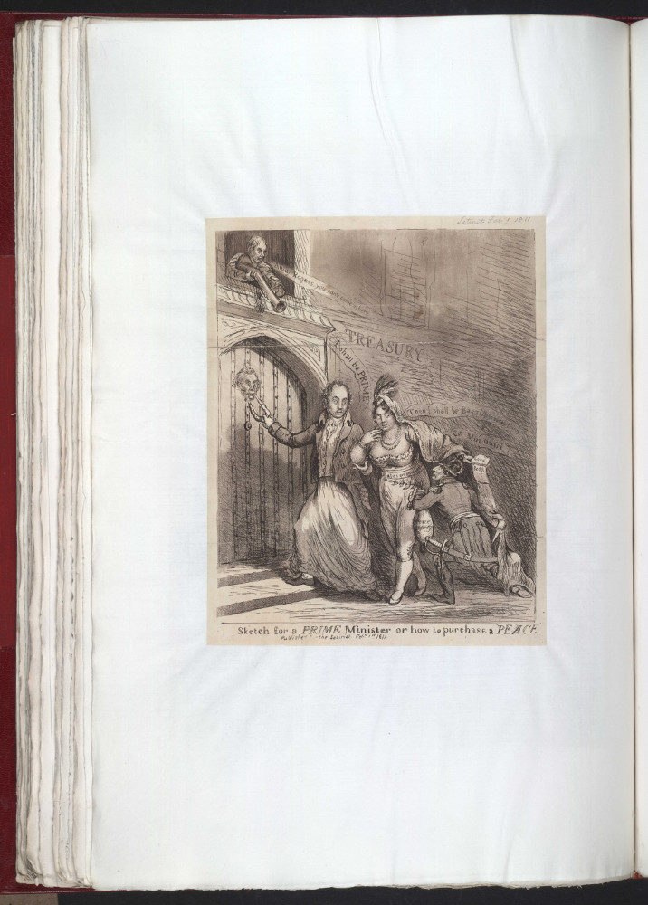 Caricature of Lord and Lady Holland. Plate from The Satirist. (British political cartoon)